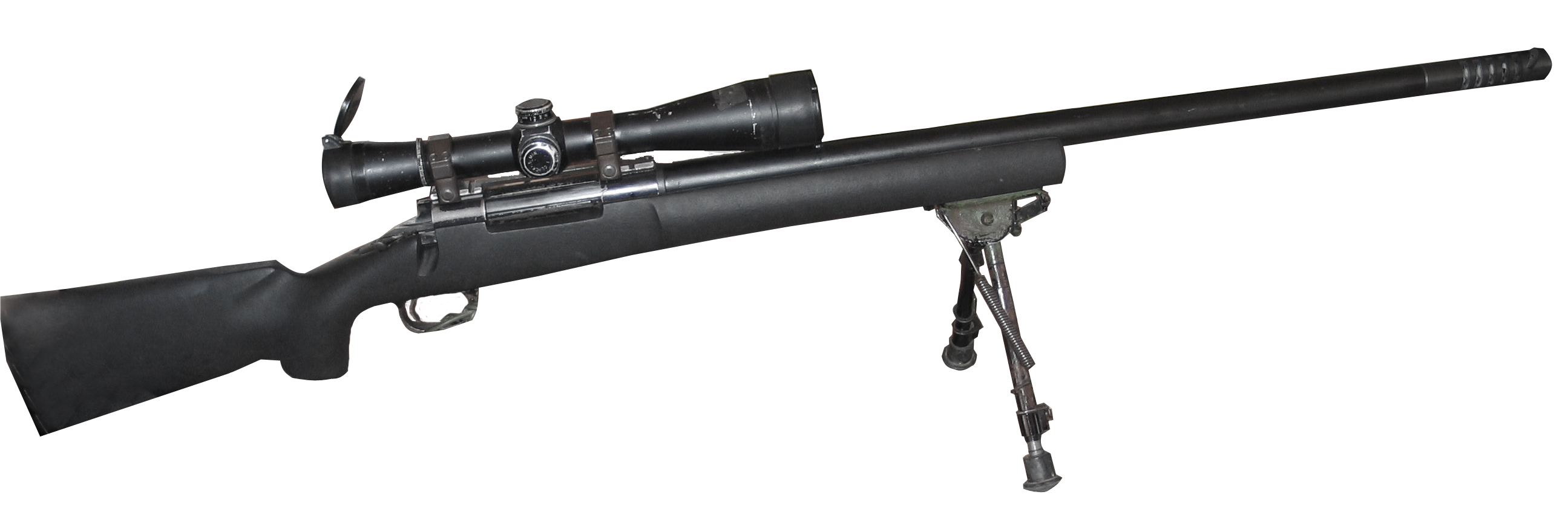 IDF M24 SWS (bolt action sniper rifle)